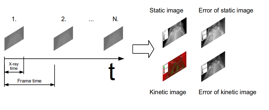 Calculation of the four images of kinetic imaging The data acquisiton pattern of kinetic imaging: recording several underexposed images with equally timed detector times (X-ray times) and frame times. X-ray time length may not necesseraly differ from frame time.